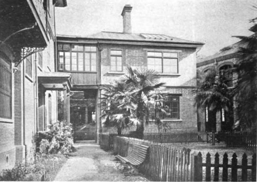 Margaret Williamson Hospital, operating pavilion, Shanghai, China. Established by the Woman's Union Missionary Society